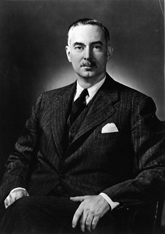 Leonard Carmichael (1898-1973) was the seventh Secretary of the Smithsonian Institution from 1953 to 1964. In this portrait Carmichael is seated and is visible from the knee up. He is looking directly at the camera. 1955.